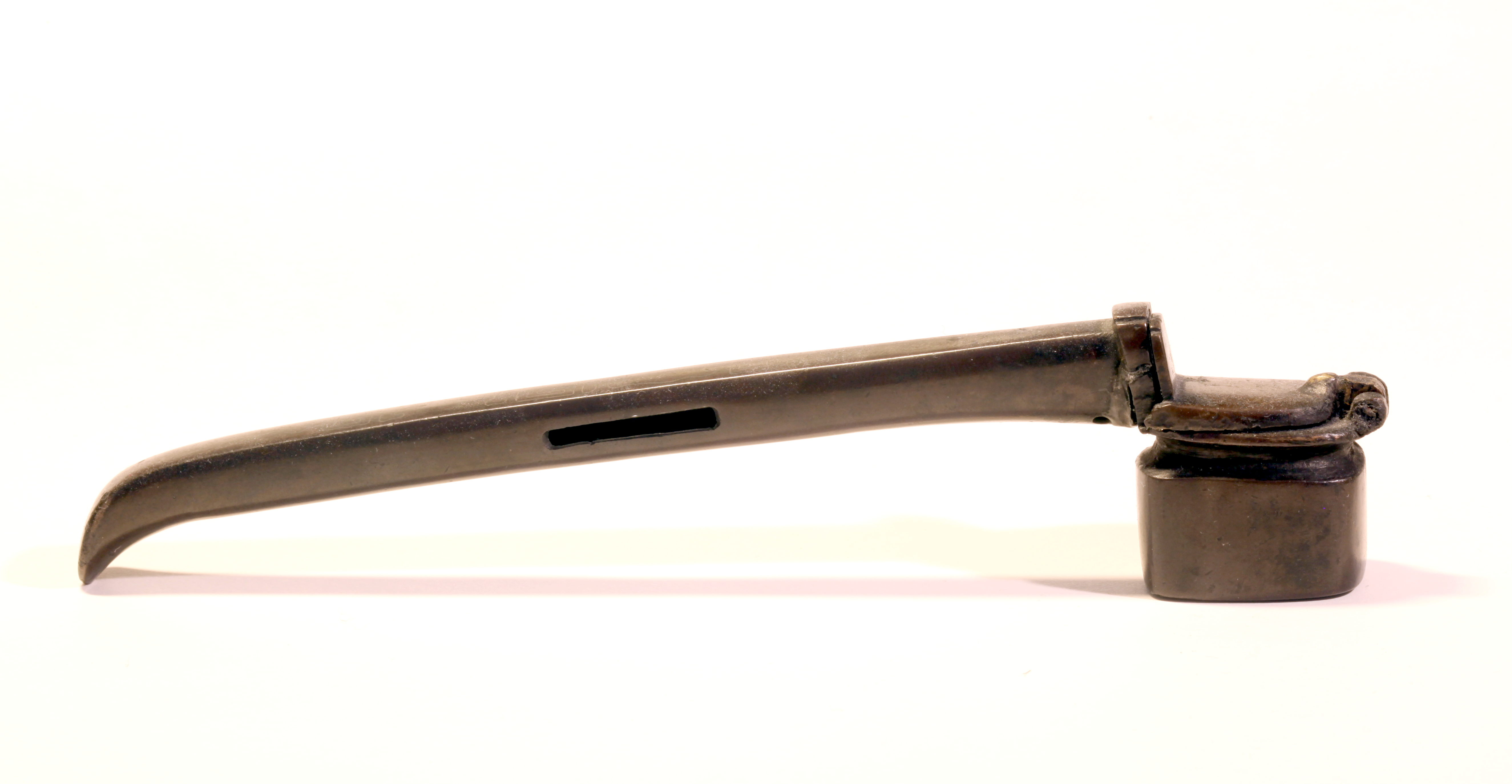 yatate